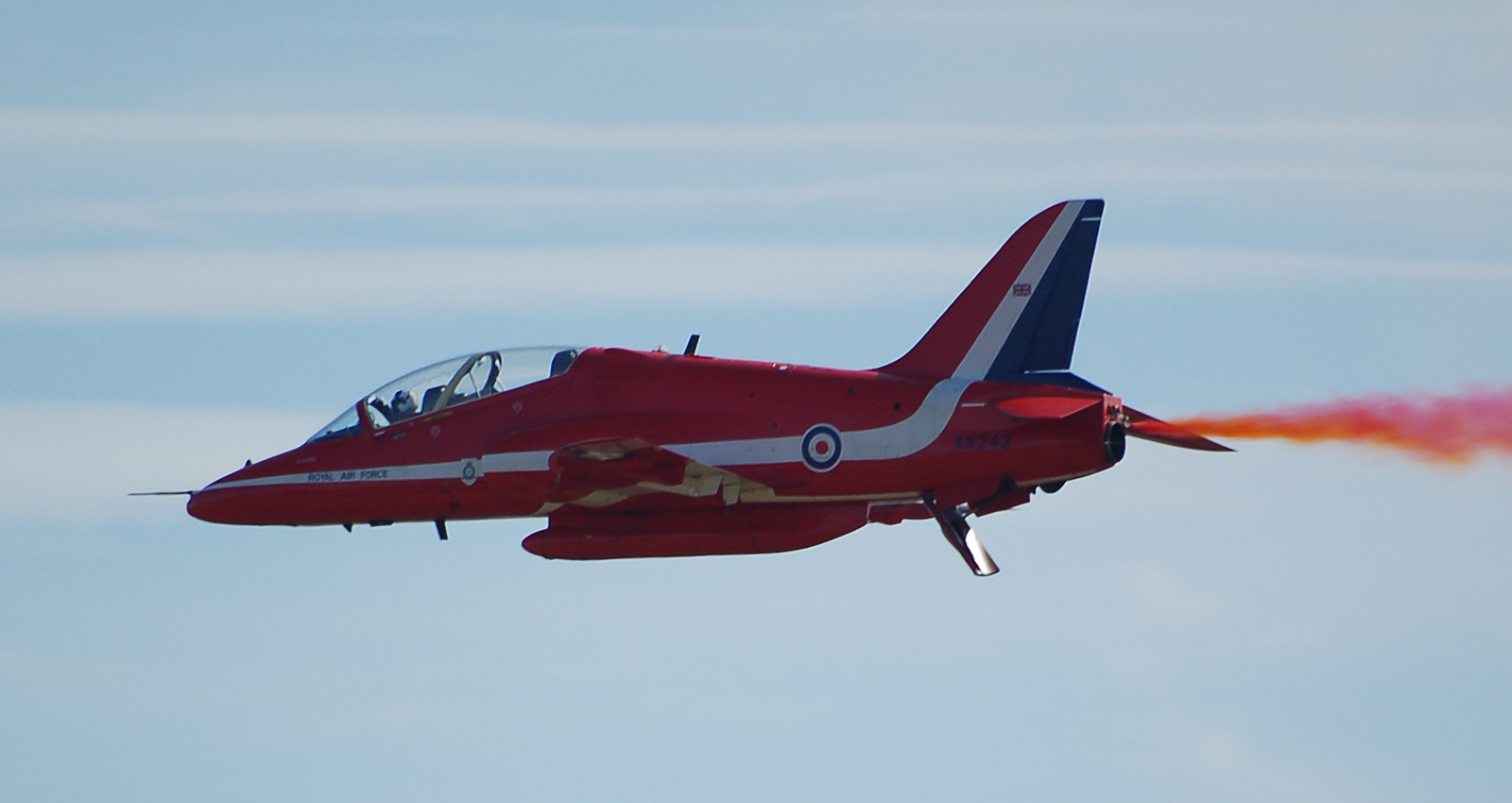 UK - Air Force British Aerospace Hawk T1